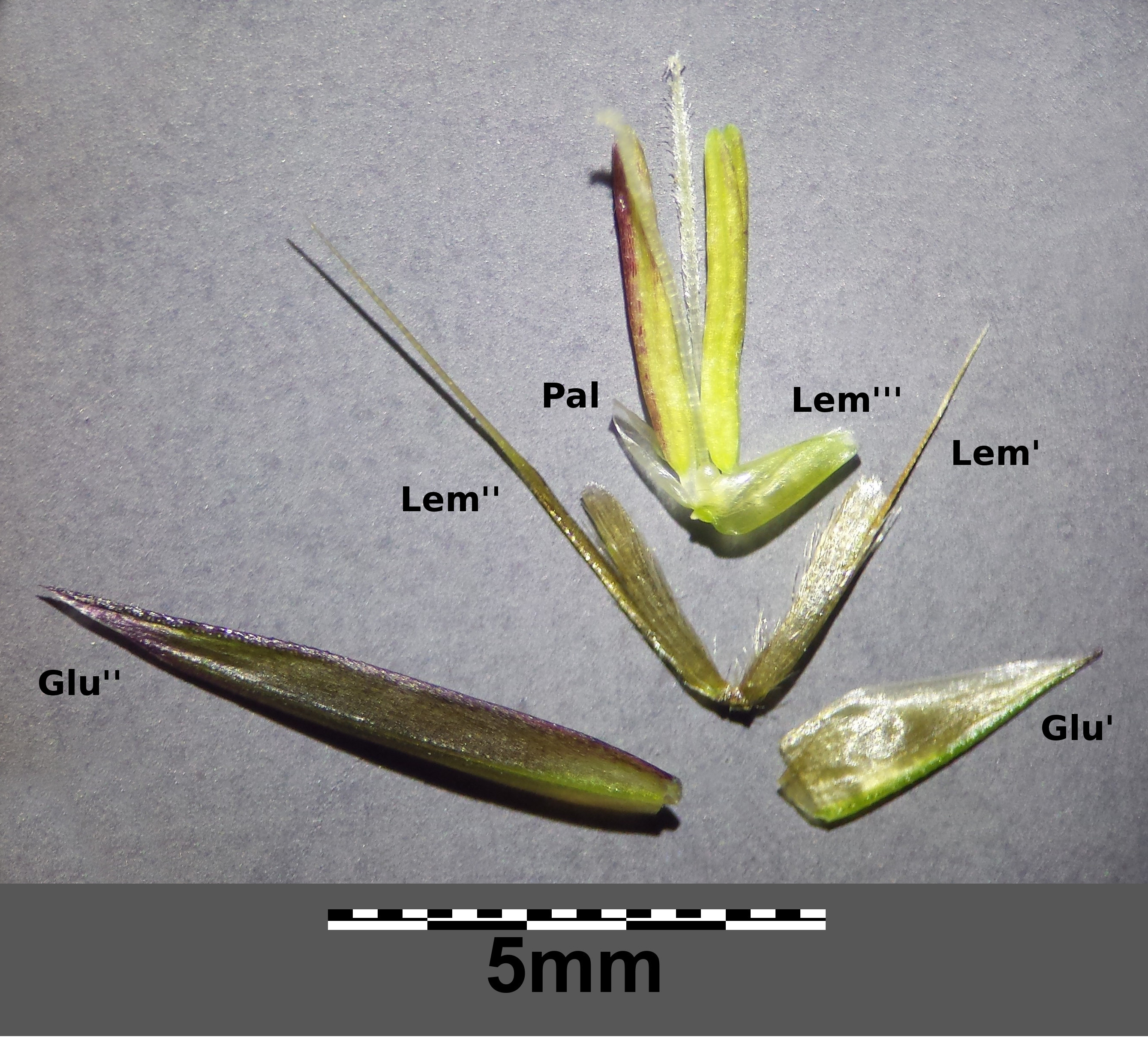 Ährchen, disjointed Glu', Glu" = Glumae Lem', Lem" = Lemmata of sterile flowers Lem'" = Lemma of fertile flower Pal = Palea of fertile flower Taxonym: Anthoxanthum odoratum ss Fischer et al. EfÖLS 2008 ISBN 978-3-85474-187-9 Location: Gollitsch near Retz, district Hollabrunn, Lower Austria - ca. 300 m a.s.l. Habitat: dry grassland